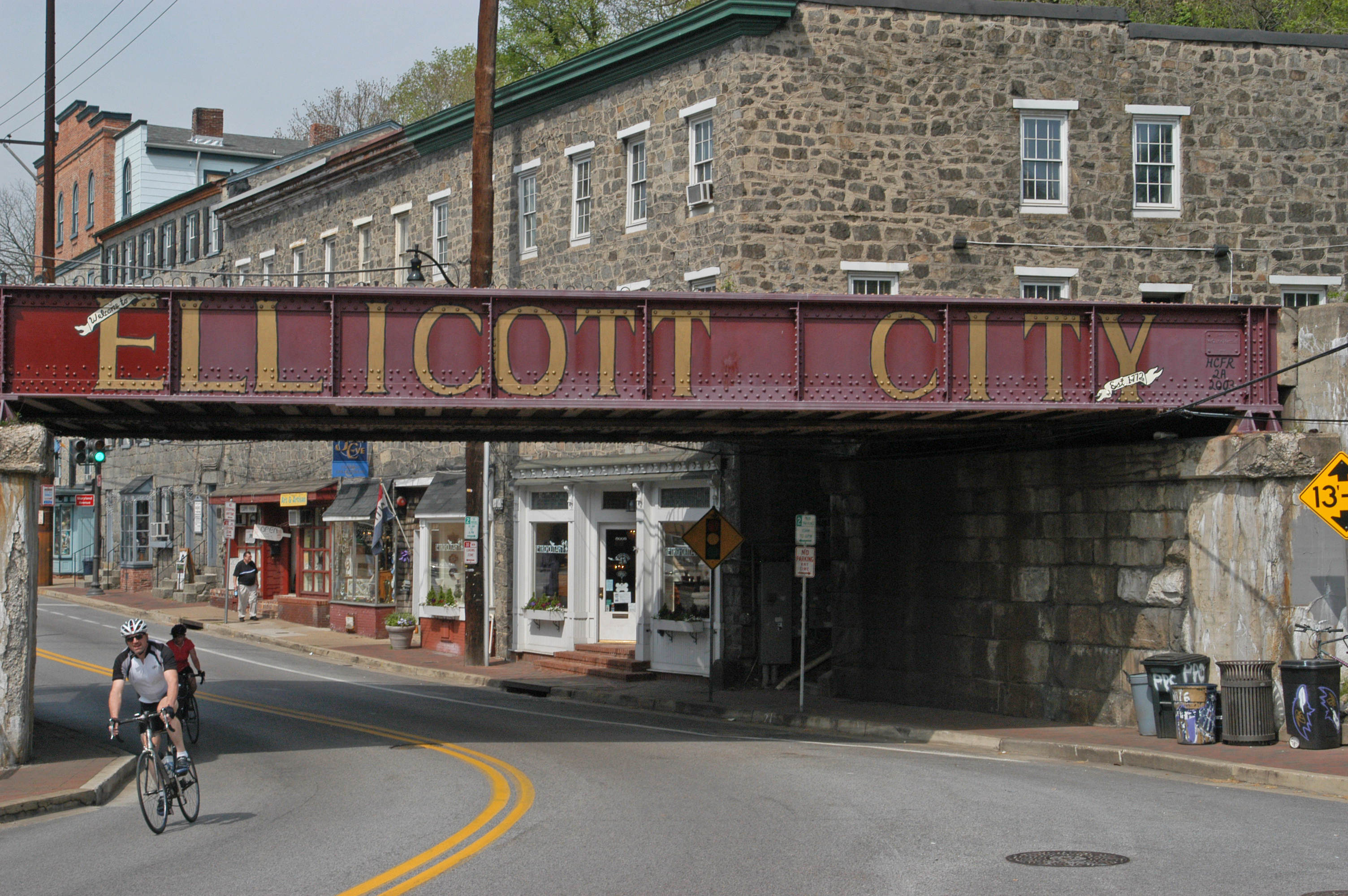 Main Street (MD 144) in Ellicott City, MD